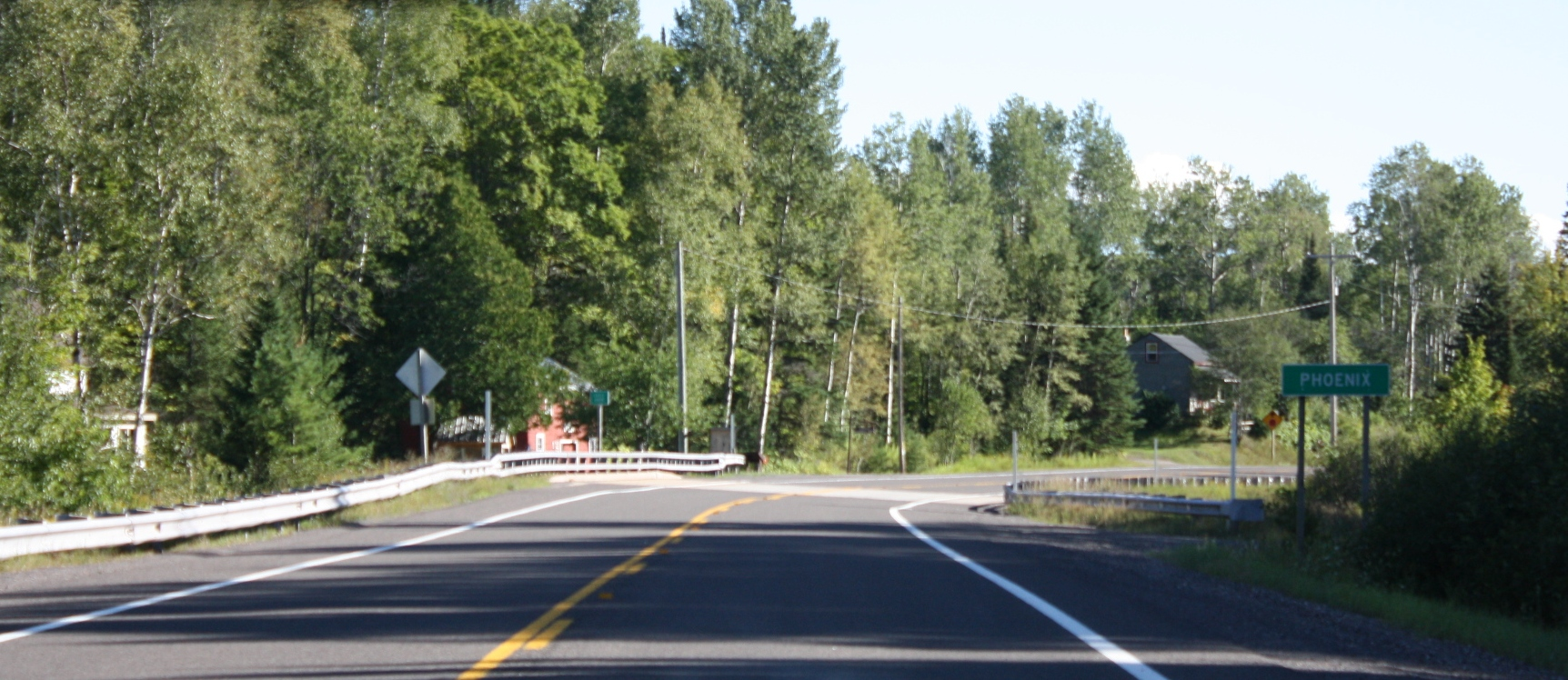 Looking at the sign for Phoenix, Michigan on M-26 (Michigan highway).